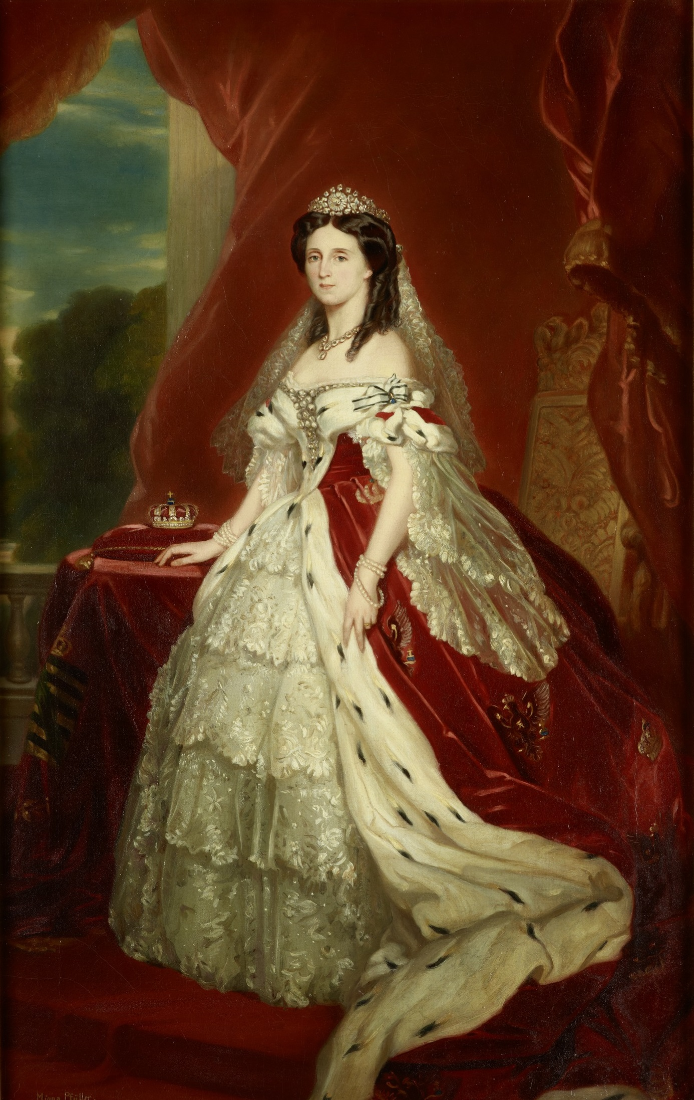 Augusta, Königin von Preußen und Deutsche Kaiserin